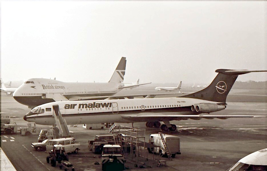 Air Malawi Vickers VC-10 at Manchester Airport